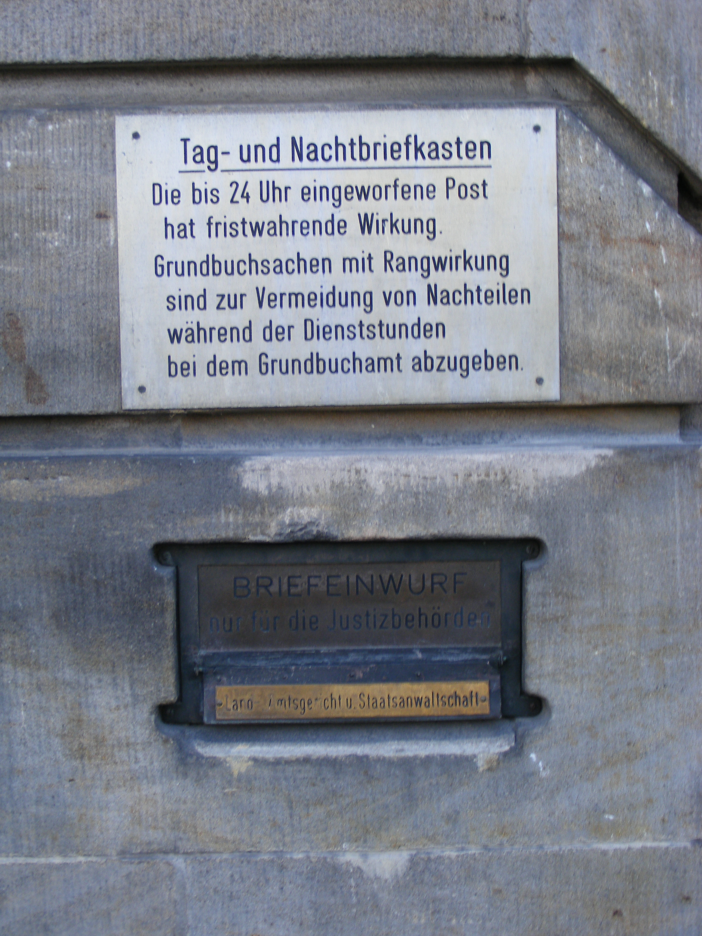 Letter box of Bayreuth justice palace